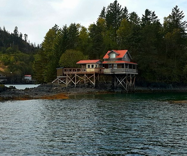 House built on pilings, Halibut Cove, Alaska